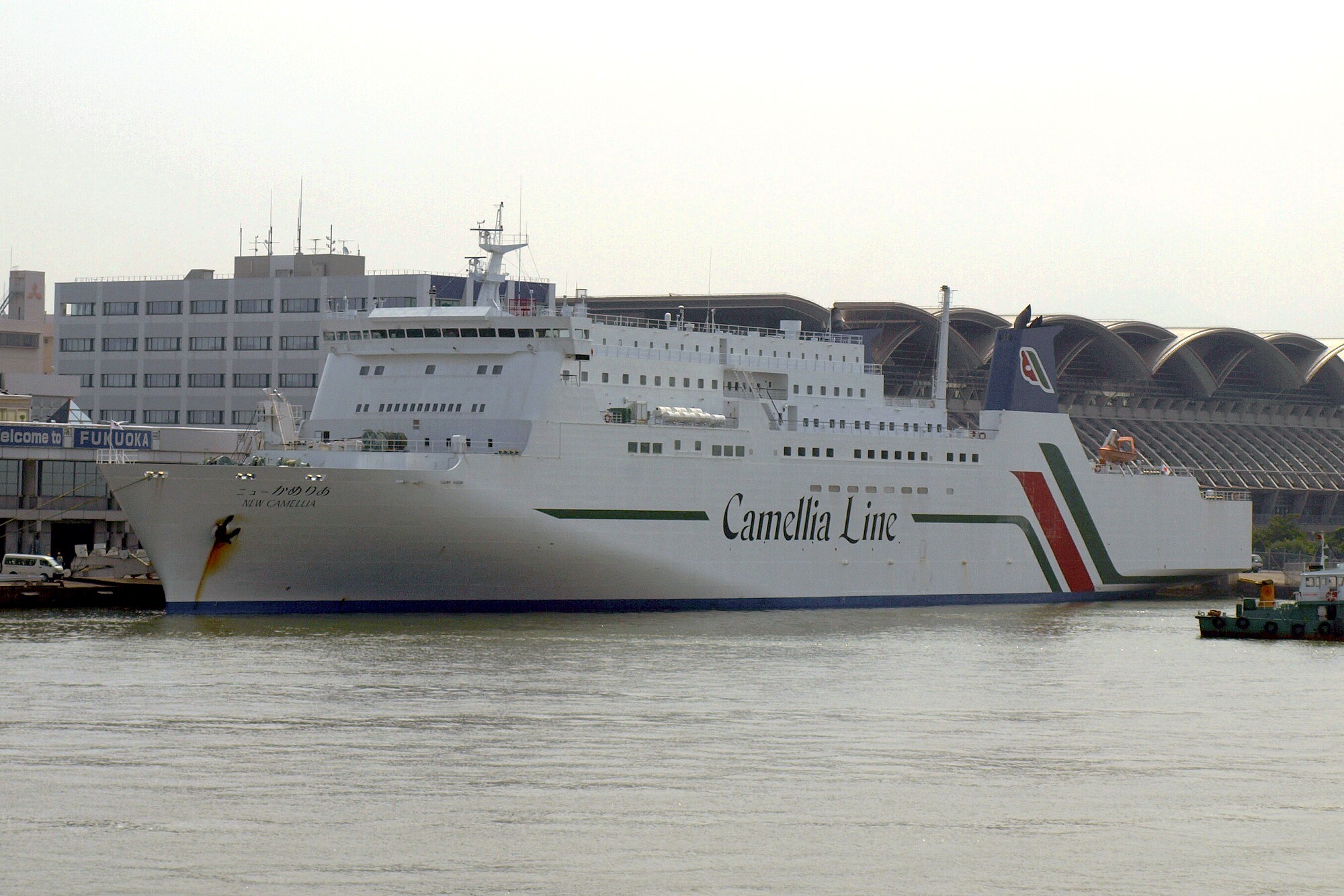 international ferry New Camellia at Hakata port. * IMO number: 9304497 * Callsign: JG5720